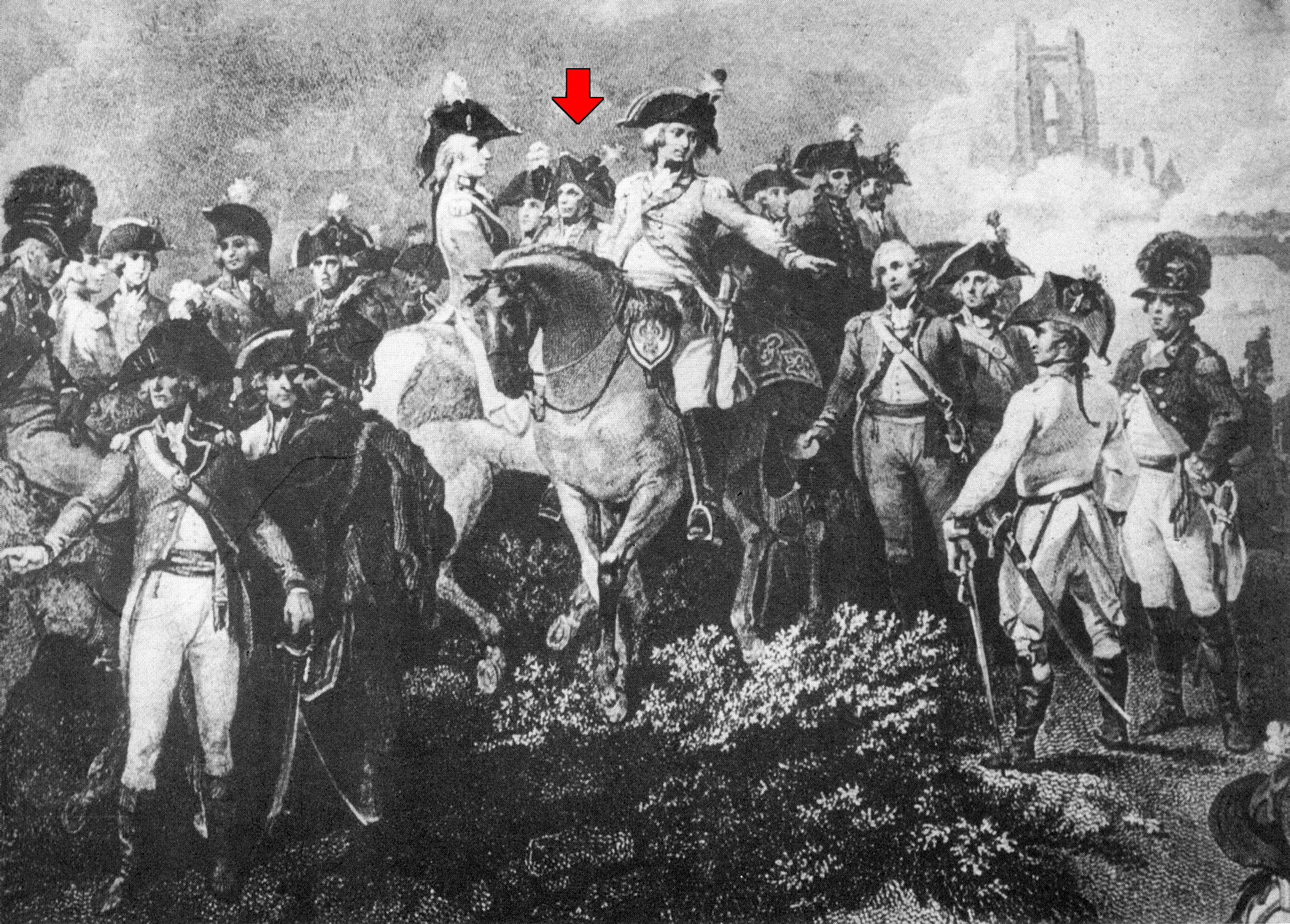 painting "Die Eroberung von Valencienne am 25.7.1793" (detail); in background Johann Ludwig von Wallmoden-Gimborn (marked by red arrow), portrayed between the two British princes